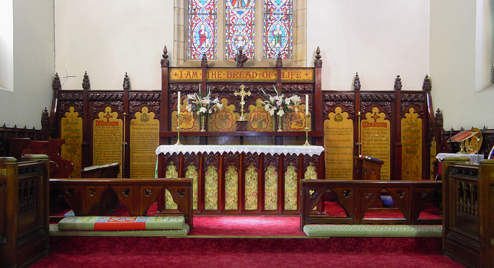 The chancel of St. John the Baptist's Anglican Church, Ashfield, Sydney, New South Wales, Australia. This image shows the reredos hand carved by the early rector F. Wilkinson.